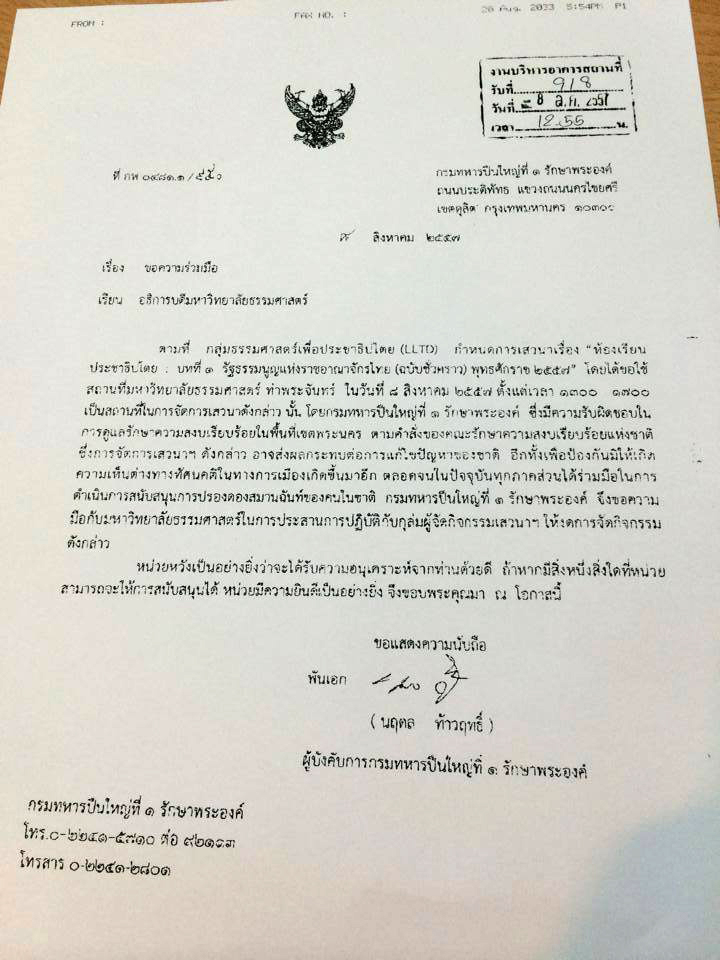 A letter from King Bhumibol Adulyadej's Guards Regiment to the Rector of Thammasat University, ordering the university to cancel a public forum on the 2014 interim constitution which was to be held by its Faculty of Law on 8 August 2014 at Tha Pra Chan Campus in Bangkok. According to the letter, the military's reason was that "love and harmony of the people in the nation" would be affected by discussions on the constitution.